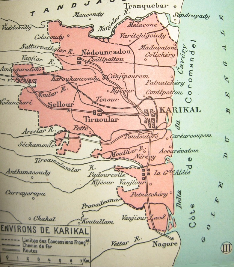 Territory of Karikal some 80 km south of Pondicherry on the Coromandel coast. Karikal, the second in importance of the five territories of French India, is now one of the four districts of the Union Territory of Puducherry. published in the Atlas colonial français, 1931.